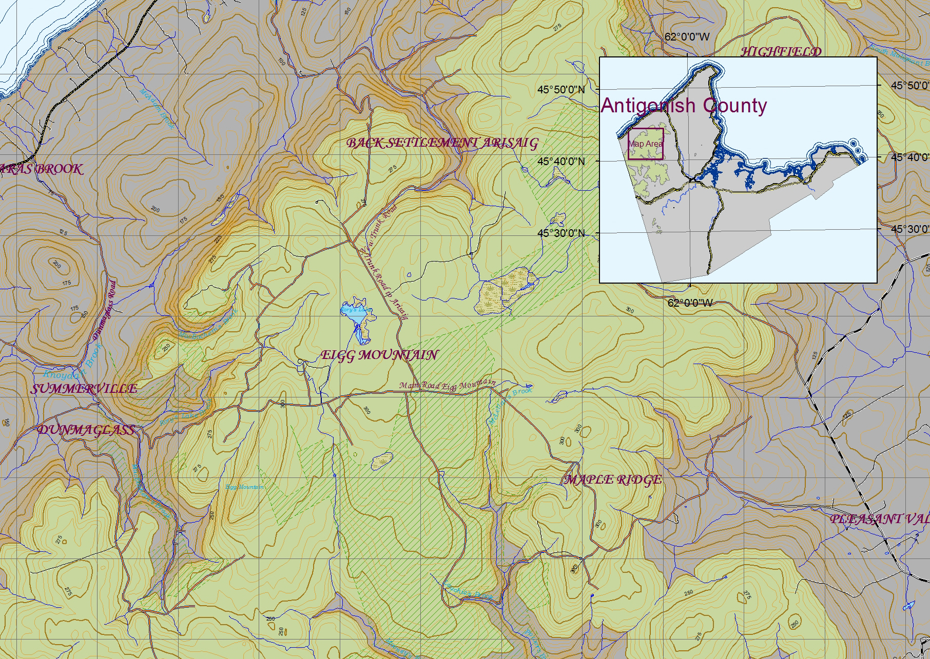 Map generated using ArcView for the Eigg Mountain Settlement History Project